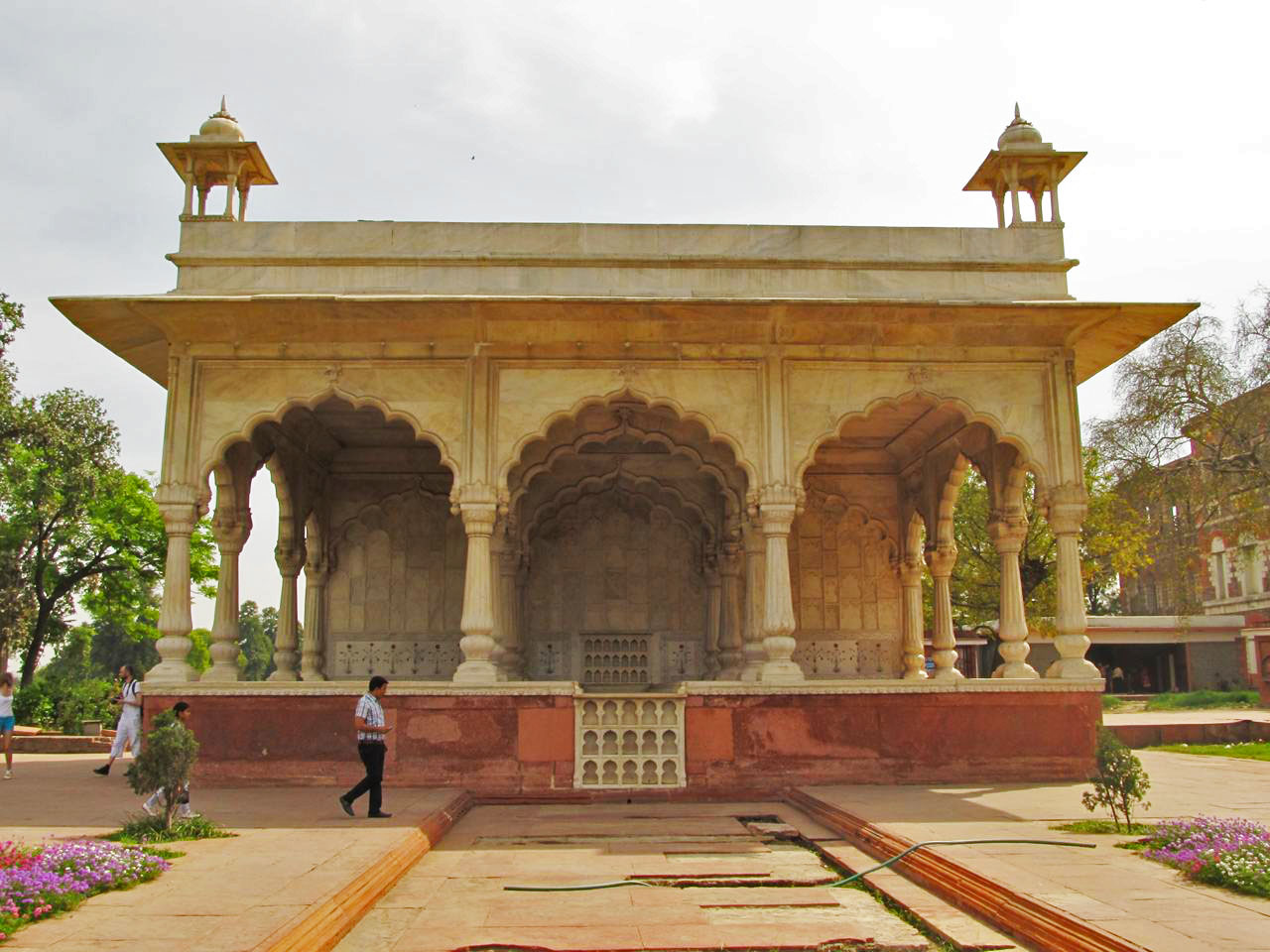 Sawan Pavillion (Sawan Mandap) in Red Fort